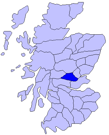 Map showing roughly the district of Strathearn in Scotland.